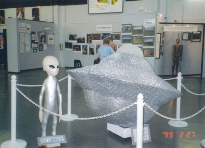 I took photo in Aug. 2004.Billy Hathorn (talk) 04:36, 4 July 2008 (UTC)